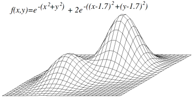 I made this image myself and I release it to the public domain.